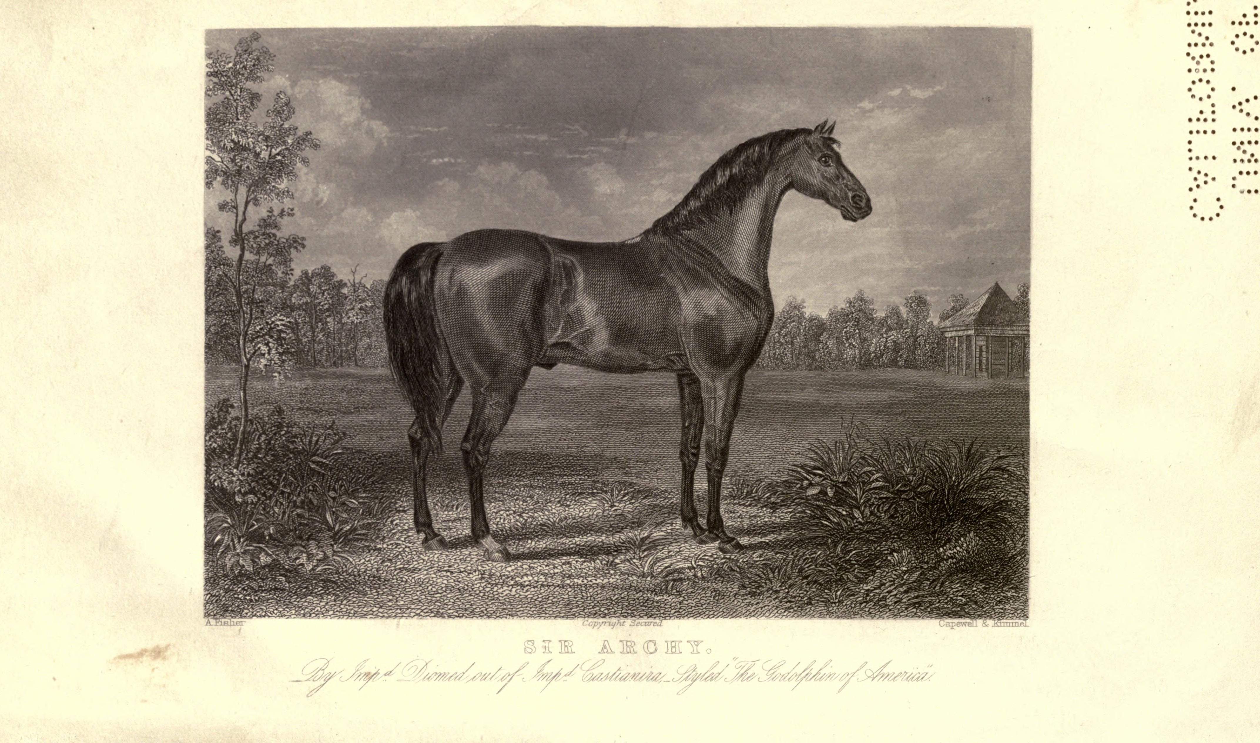 Wallace's American stud-book, being a compilation of the pedigrees of American and imported blood horses, with an appendix of all animals without extended pedigrees prior to 1840, and a supplement containing all horses and mares that have trotted in public in 2 m. 40 s., and geldings that have trotted in 2 m. 35 s., and many of their progenitors and descendants ... from the earliest trotting races till the close of 1866.